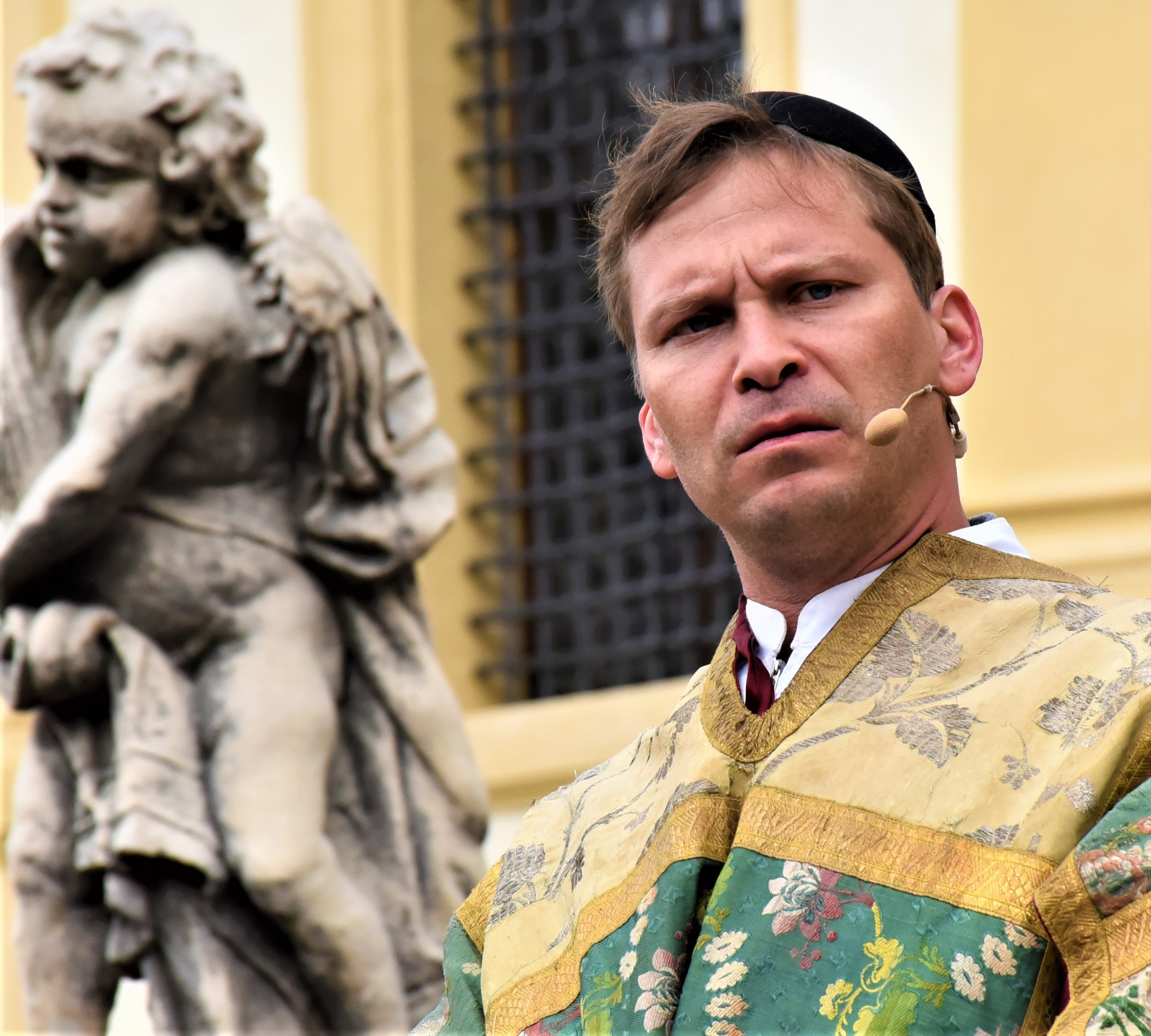 Marek Holý, Czech actor